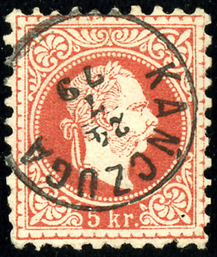 Austrian KK 5 kreuzer stamp, cancelled in 1879 at KAŃCZUGA (Galicia, Poland)